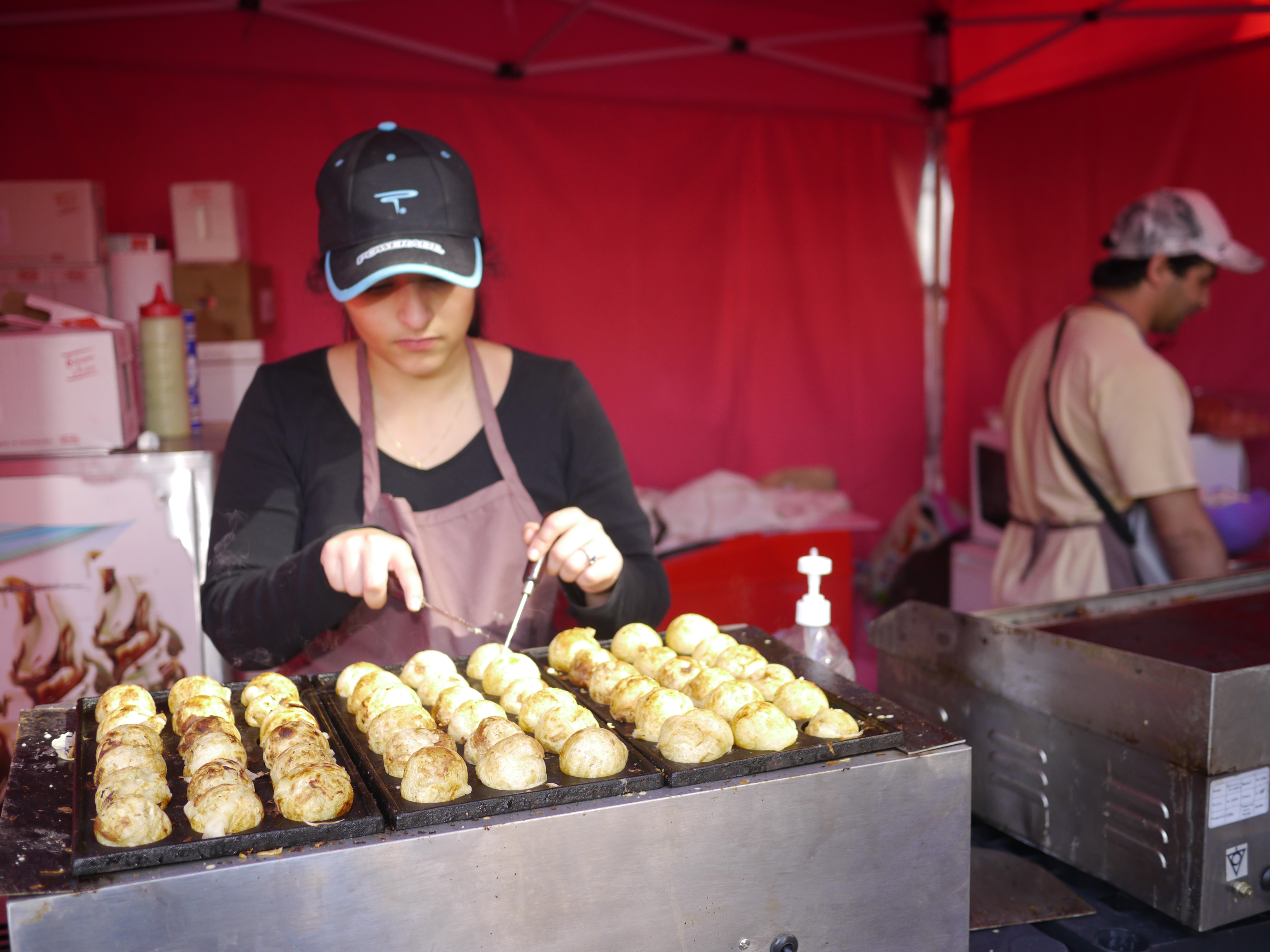 Mang'Azur festival of Toulon - official site